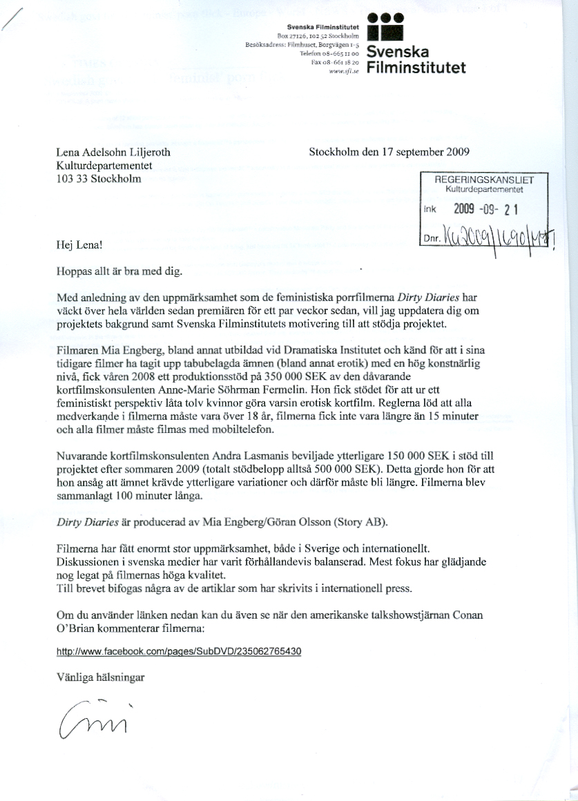 A letter from Cissi Elwin-Frenkel, director of the Swedish Film Insitute (SFI), to Swedish Minister of Culture Lena Adelsohn Liljeroth, explaining why SFI funded the collection of feminist pornographic shorts Dirty Diaries